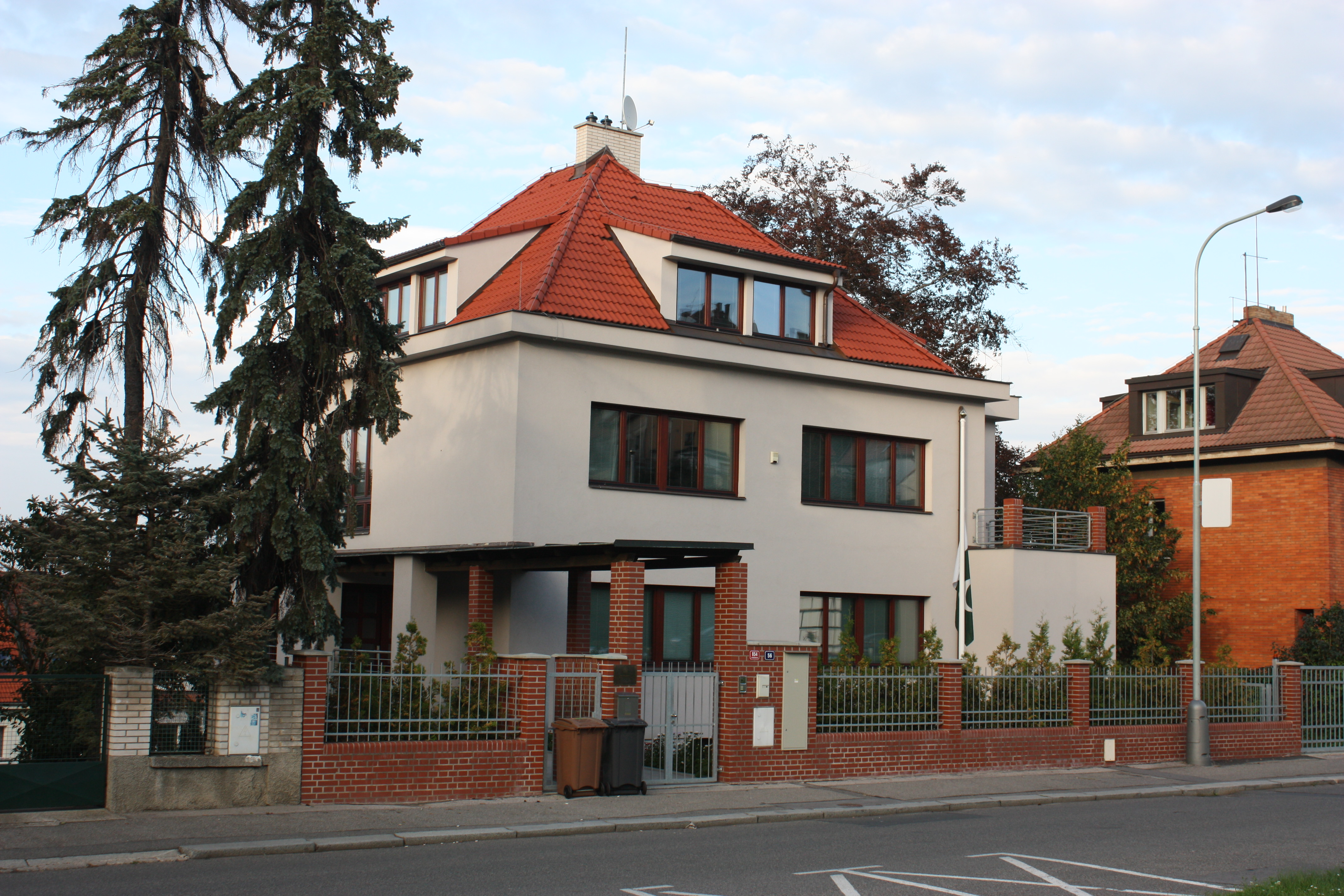 Střešovická 56/854, Embassy of Pakistan in Prague